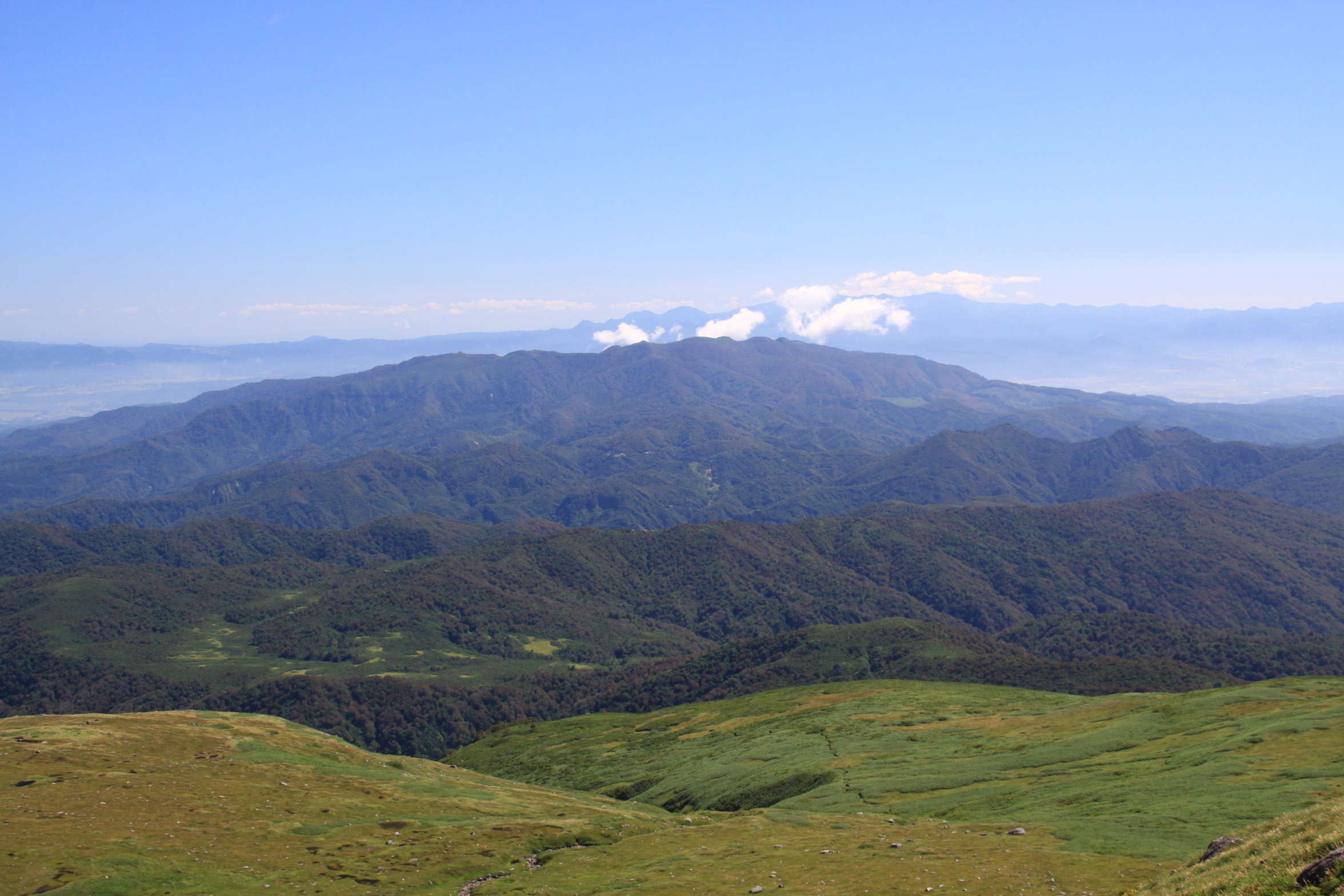 Mt.Hayama from top of Mt.Gassan.